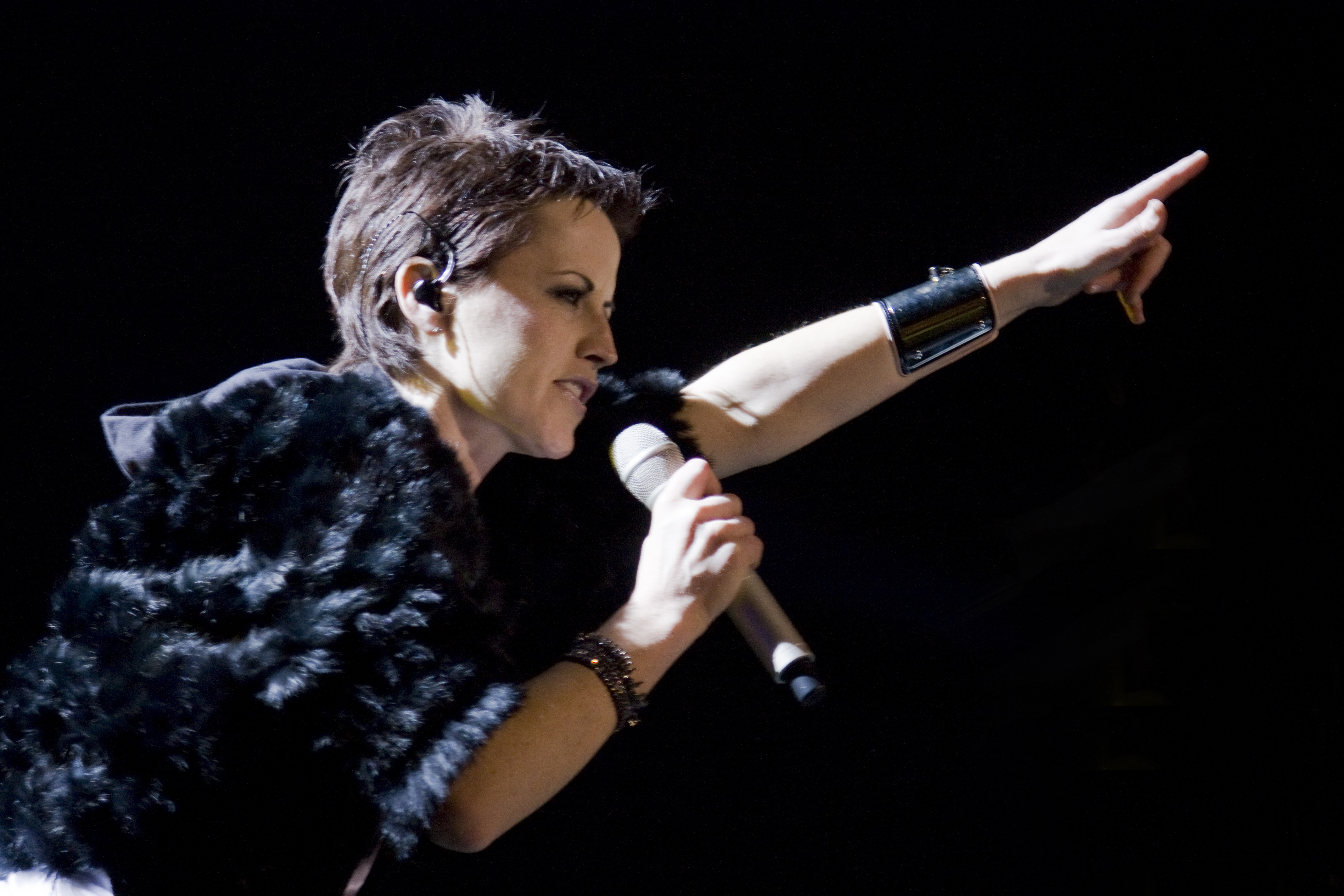 The Cranberries live in Barcelona 2010-03-13